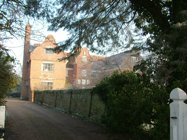 Buxlow Manor, also known as Red House Farm This house was built in 1678, and its distinctive E plan seems to be well known as an example of this particular type of architecture.